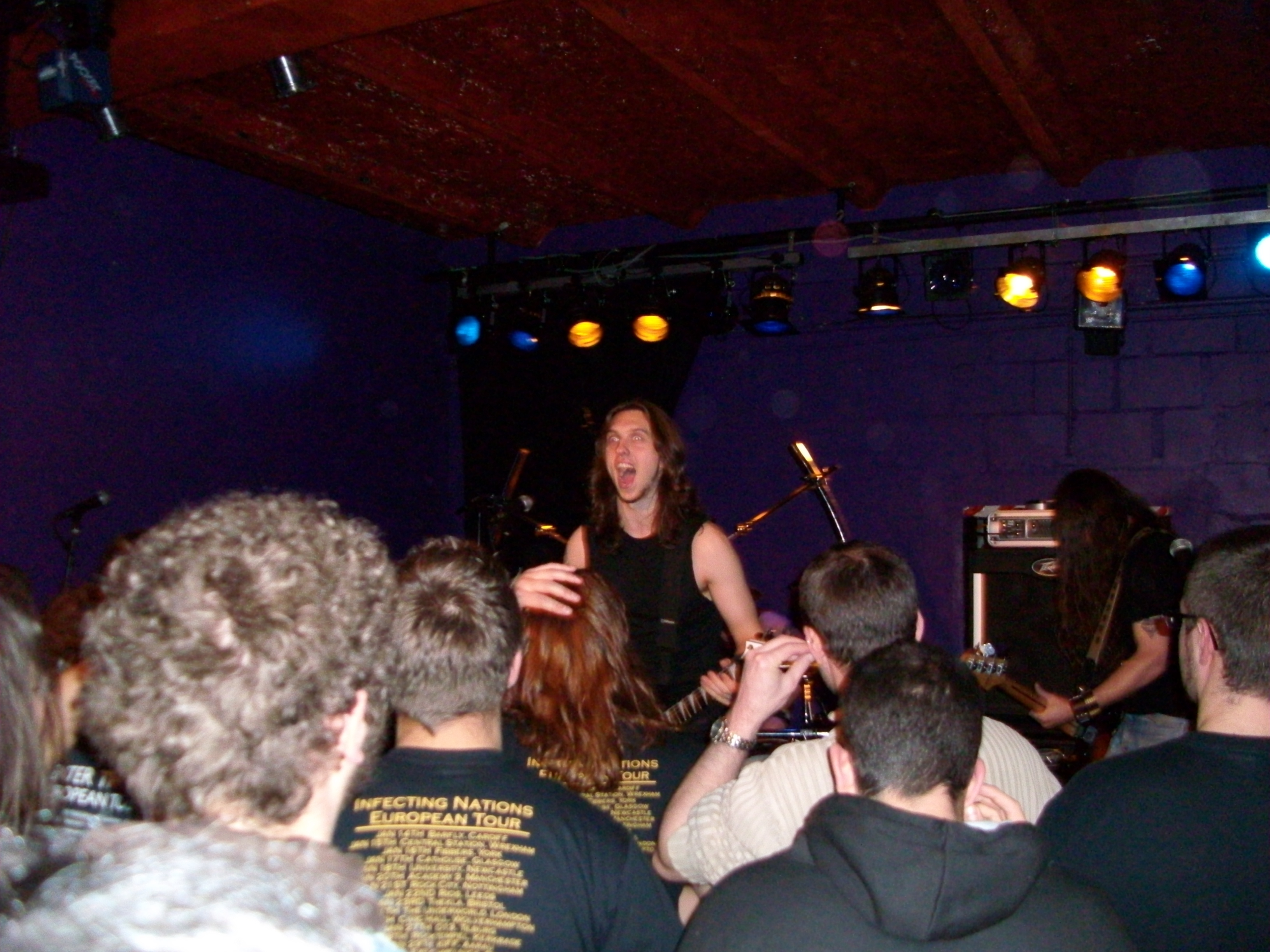 Evile live at the Kleiner Klub in Saarbruecken 2010-01-31